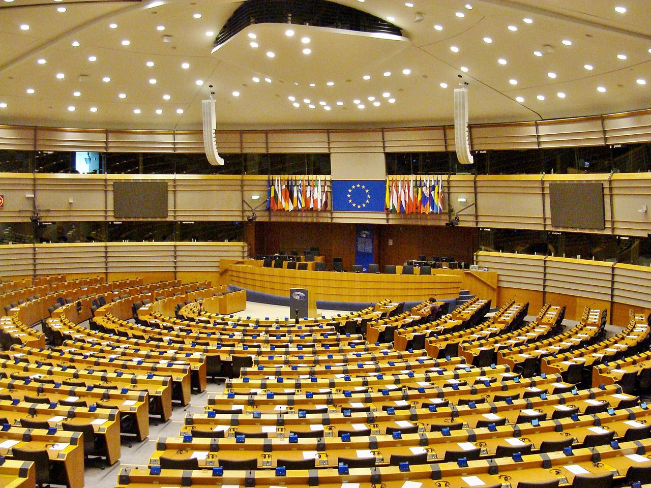 European Parliament Brussels plenary sessions hemicycle